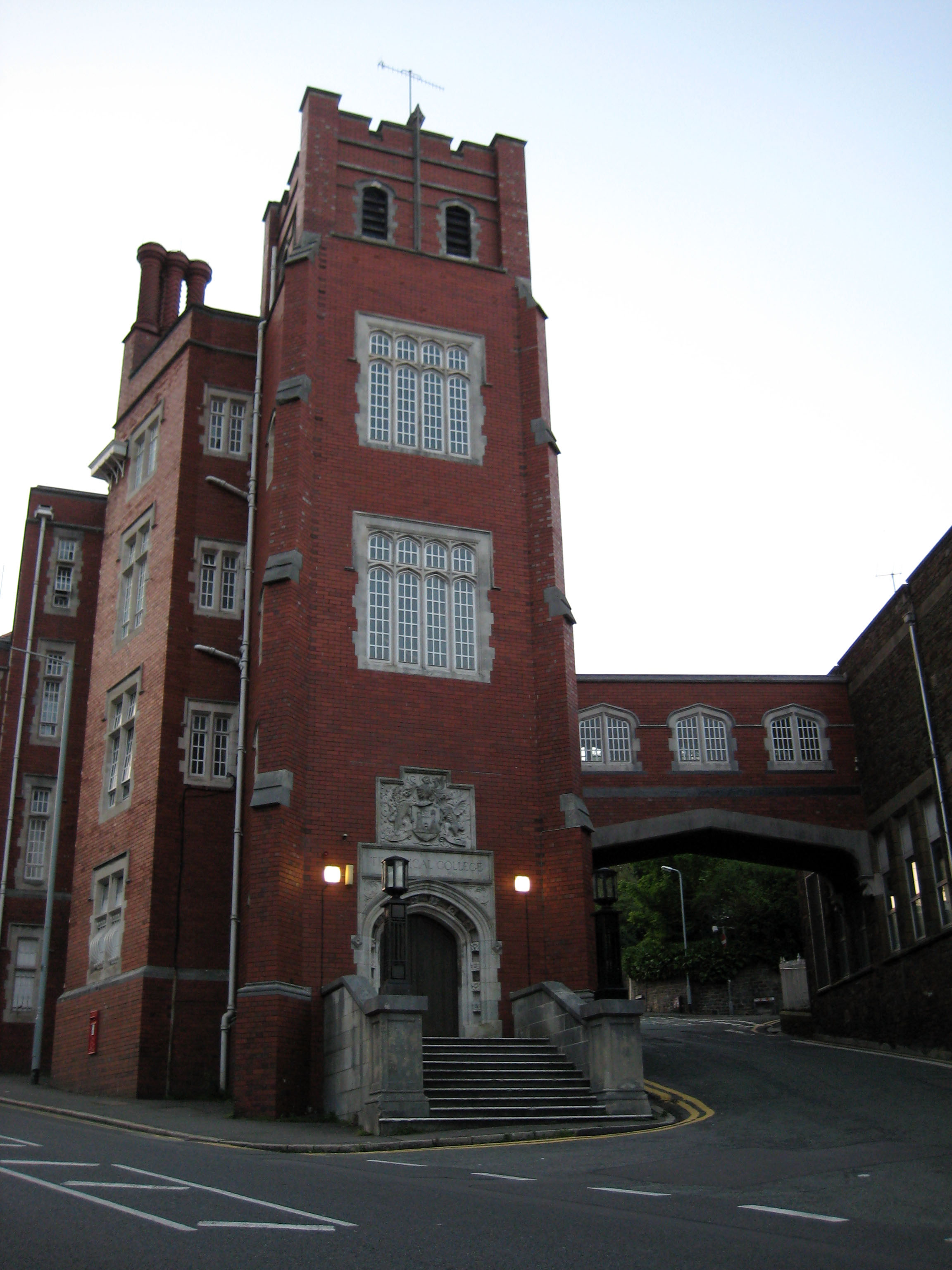 Part of Swansea Metropolitan University's Mount Pleasant campus